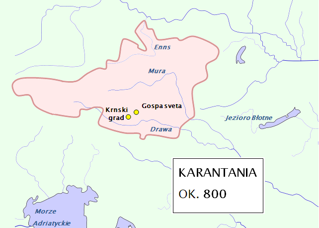 Carantania (Karantanija) at 800 AD; for approximate borders: look at Inzko Valentin (1978): Zgodovina Slovencev do leta 1918. Mohorjeva založba, Celovec. Str. 21; Čepič Zdenko et al. (1979): Zgodovina Slovencev. Cankarjeva založba, Ljubljana 1979, str. 127 in 133; Peršič Janez et al. (1983): Stare kulture. Mladinska knjiga, Ljubljana, str. 144.